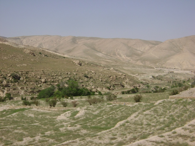 Jabal Sinjar, Iraq, fallow terrace fields